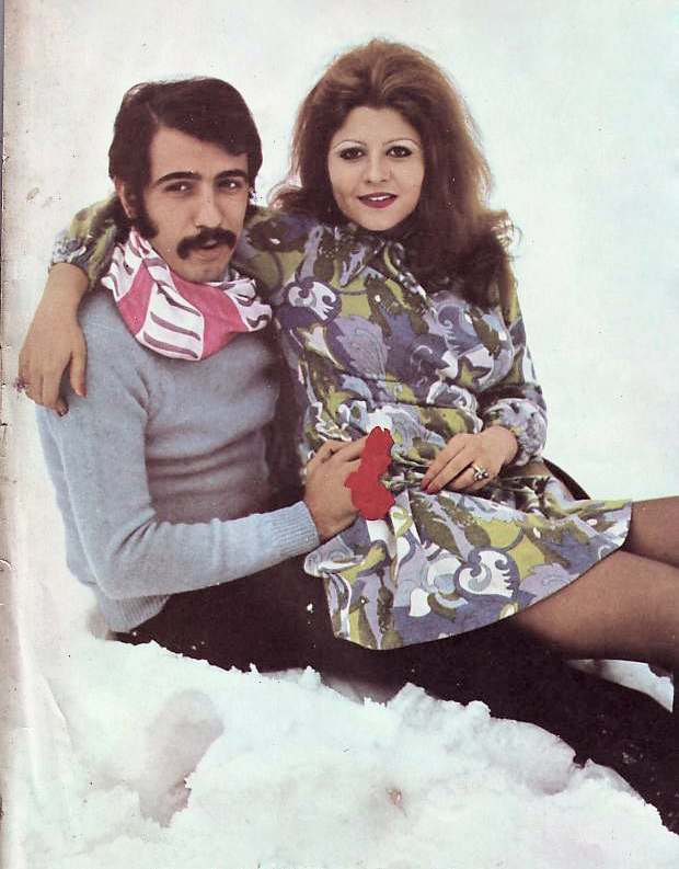 Photo published with an interview of "Weekly Ettelaat" with "Ali Hatami", 3 months after marriage with "Zari Khoshkam"